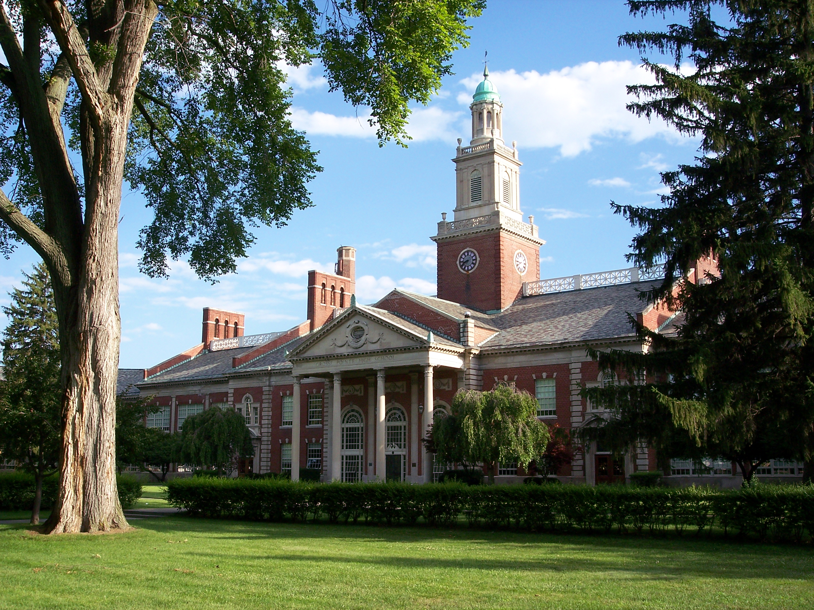 Grosse Pointe South High School — in Grosse Pointe Farms, near Detroit, in Michigan.